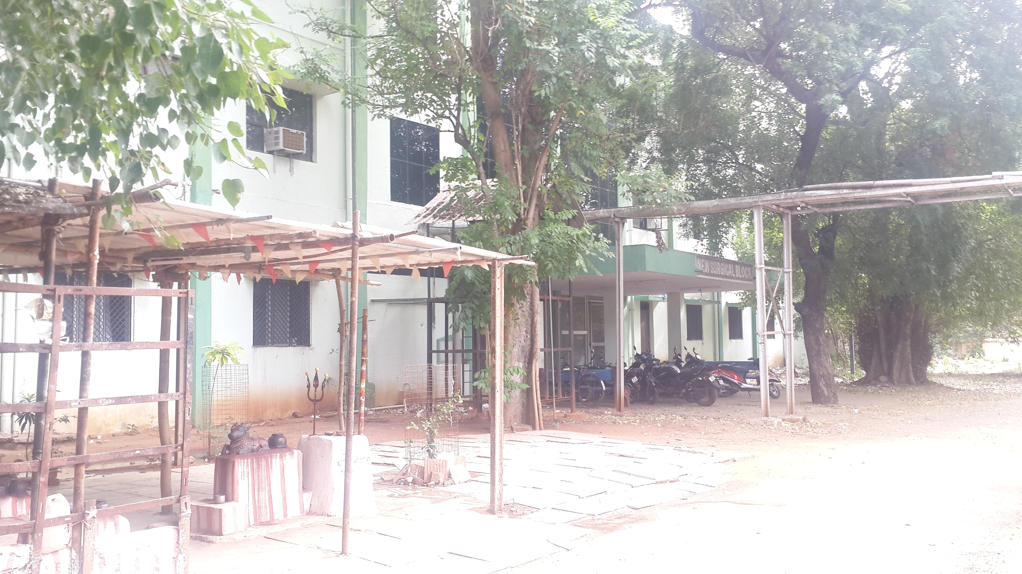 New Surgical ward at Divisional Railway Hospital, Golden Rock